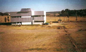 Centro Universitario de Ciencias Económico Administrativas